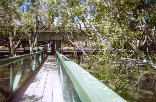 Mangroves at the QUT CityCat wharf ( this photograph was taken by Figaro )